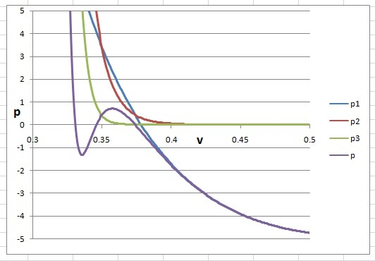 PVT isotherm of argon